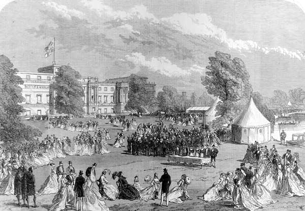 A garden party at Buckingham Palace in 1868. The Illustrated London News.